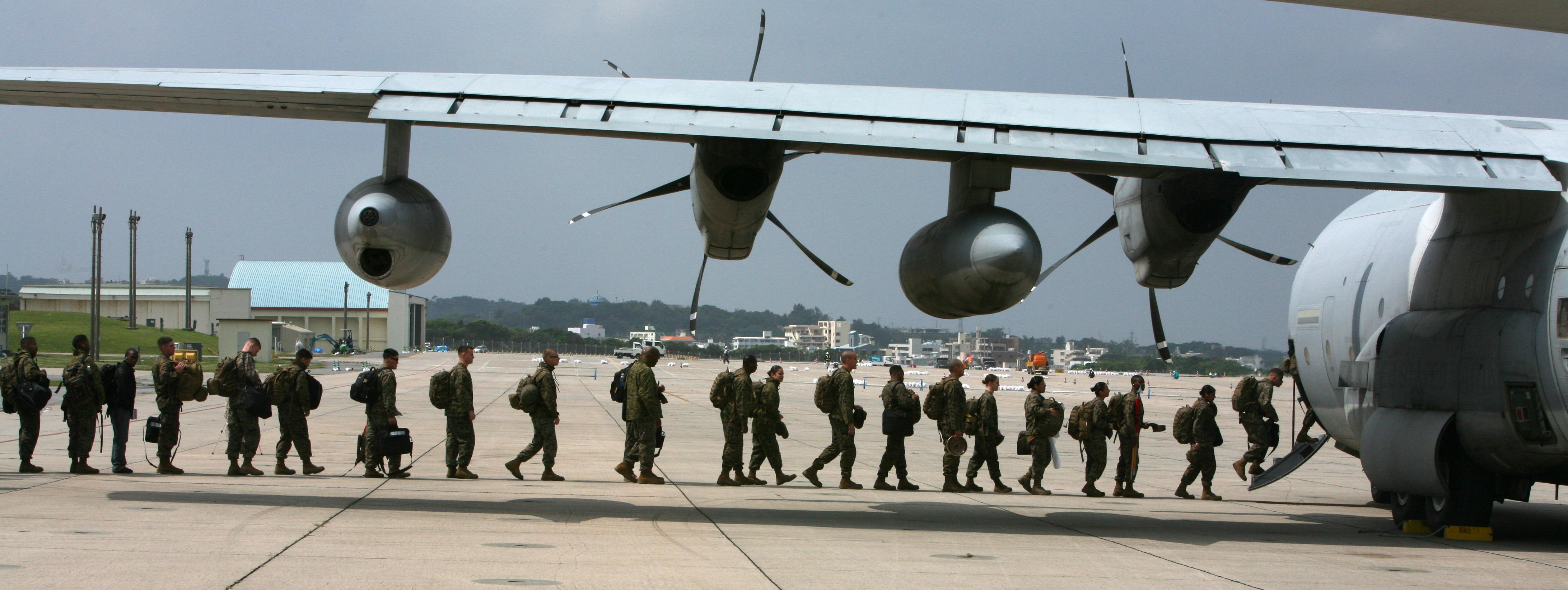 MARINE CORPS AIR STATION FUTENMA, Okinawa (March 16, 2011) Marines assigned to Marine Aircraft Group 36, 1st Marine Aircraft Wing, III Marine Expeditionary Force, board a KC-130J Super Hercules aircraft to provide assistance to areas in Japan affected by a 9.0 magnitude earthquake and subsequent tsunami. (U.S. Marine Corps photo by Cpl. Justin Wheeler/Released)